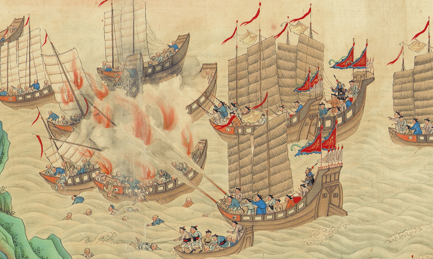 this is a portion of the Qing scroll on display at the Hong Kong Maritime Museum